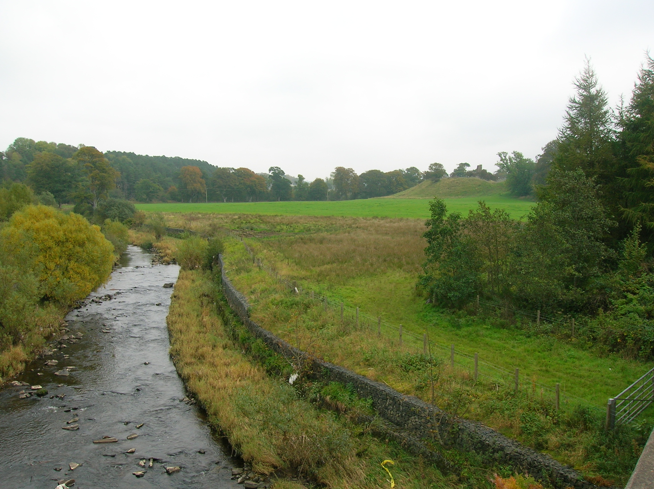 Terringzean Castle above the Terringzean Holm and the River Lugar, East Ayrshire, Scotland.